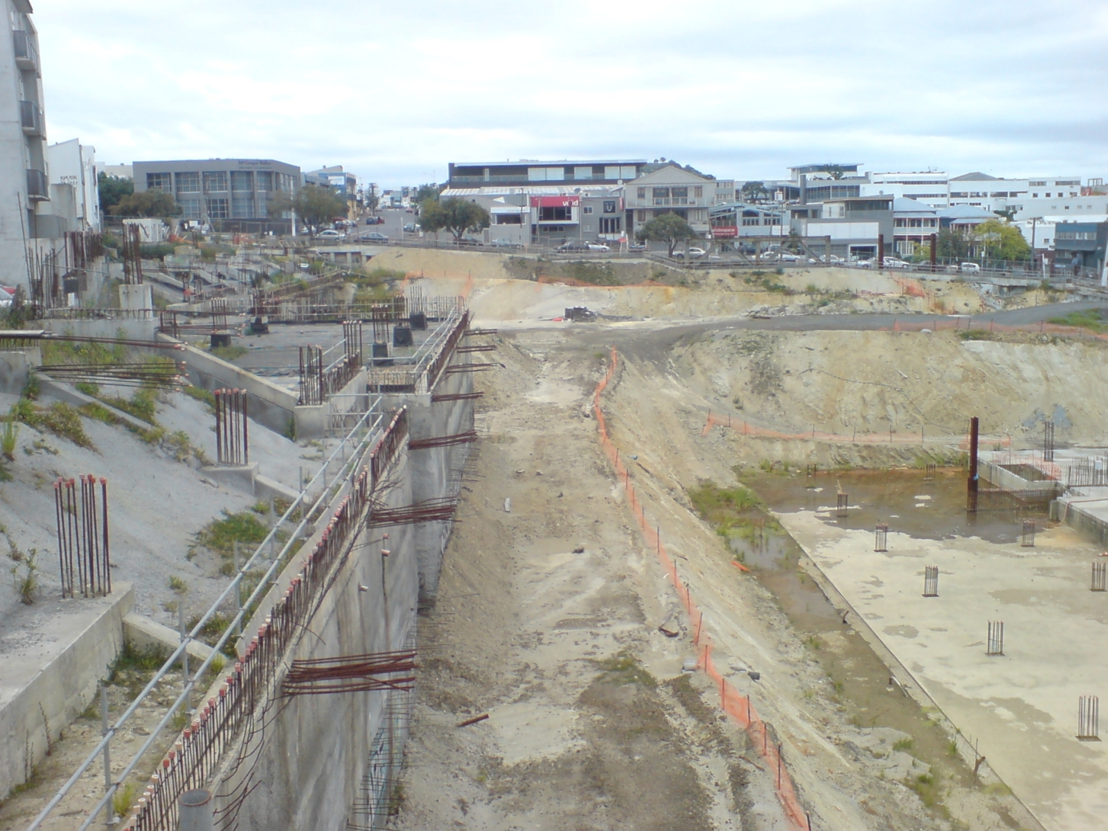 The construction site of the proposed 'Soho' development in Ponsonby Auckland City, New Zealand. However, the developer went bankrupt, and the site has been in this photographed state for over a year. It is now semi-affectionally called 'The Sohole' by locals - some who turned into a swimming pool in an art/protest event for a day.